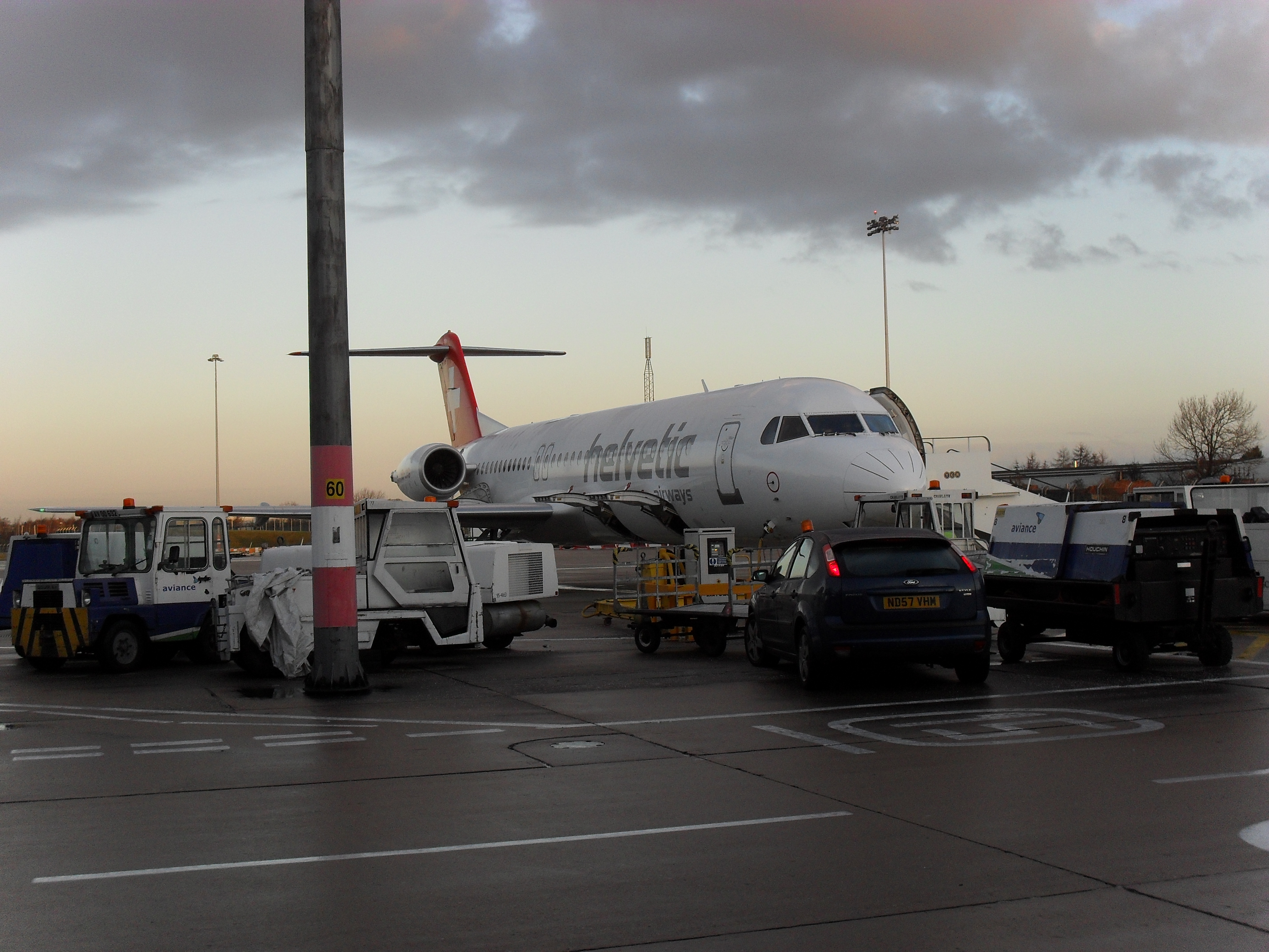 Helvetic Airways Fokker 100 at Birmingham